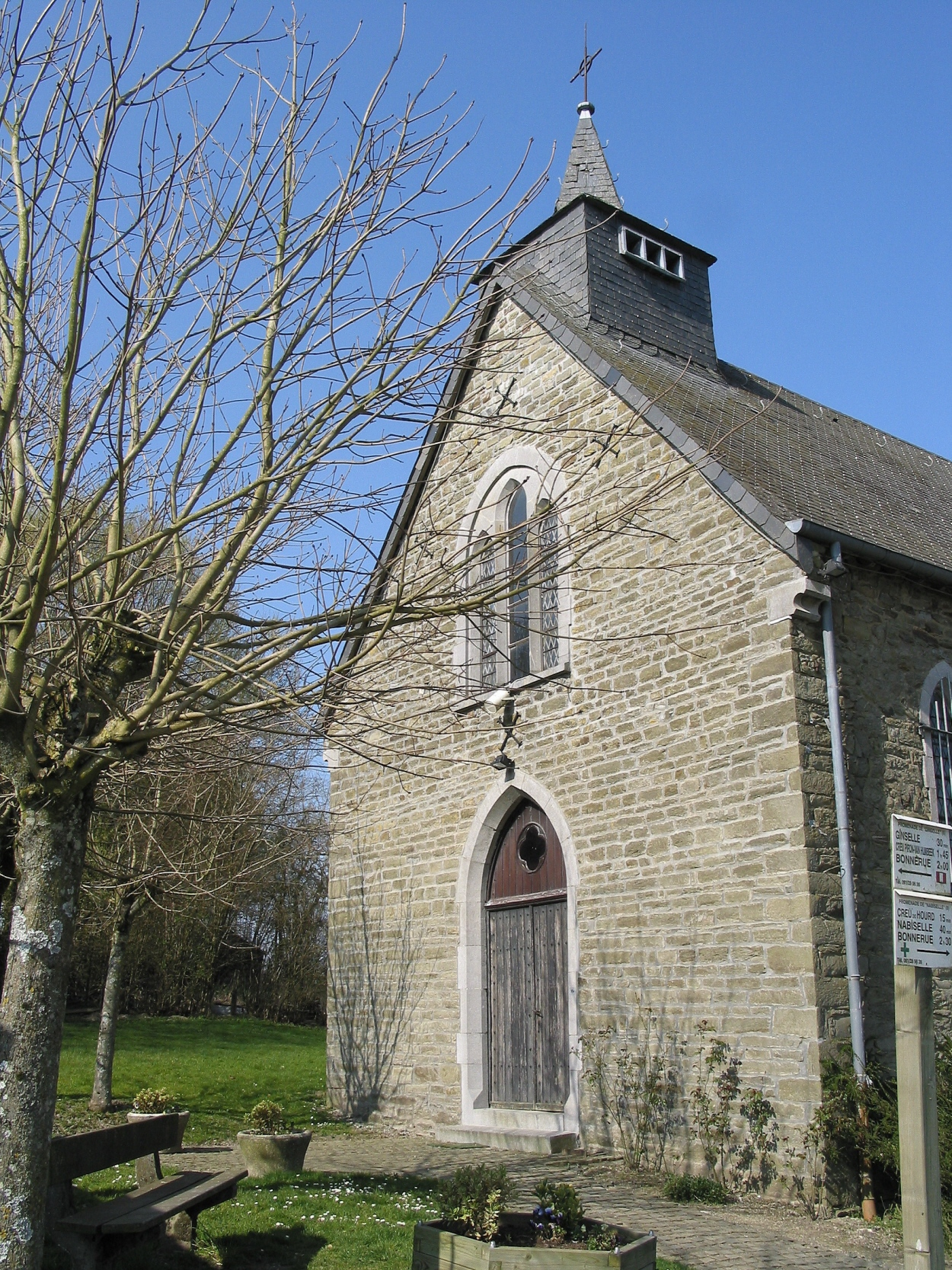 Bonnerue (Belgium), St. Bernard's chapel (1898).